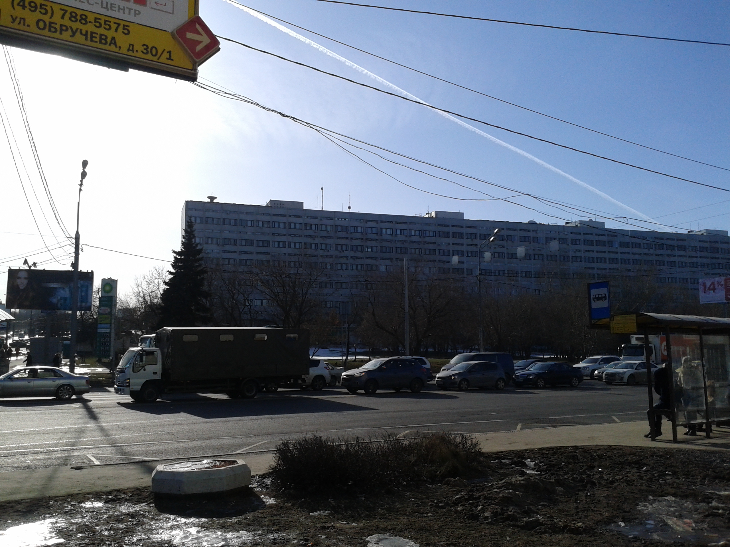 Russian Space Research Institute